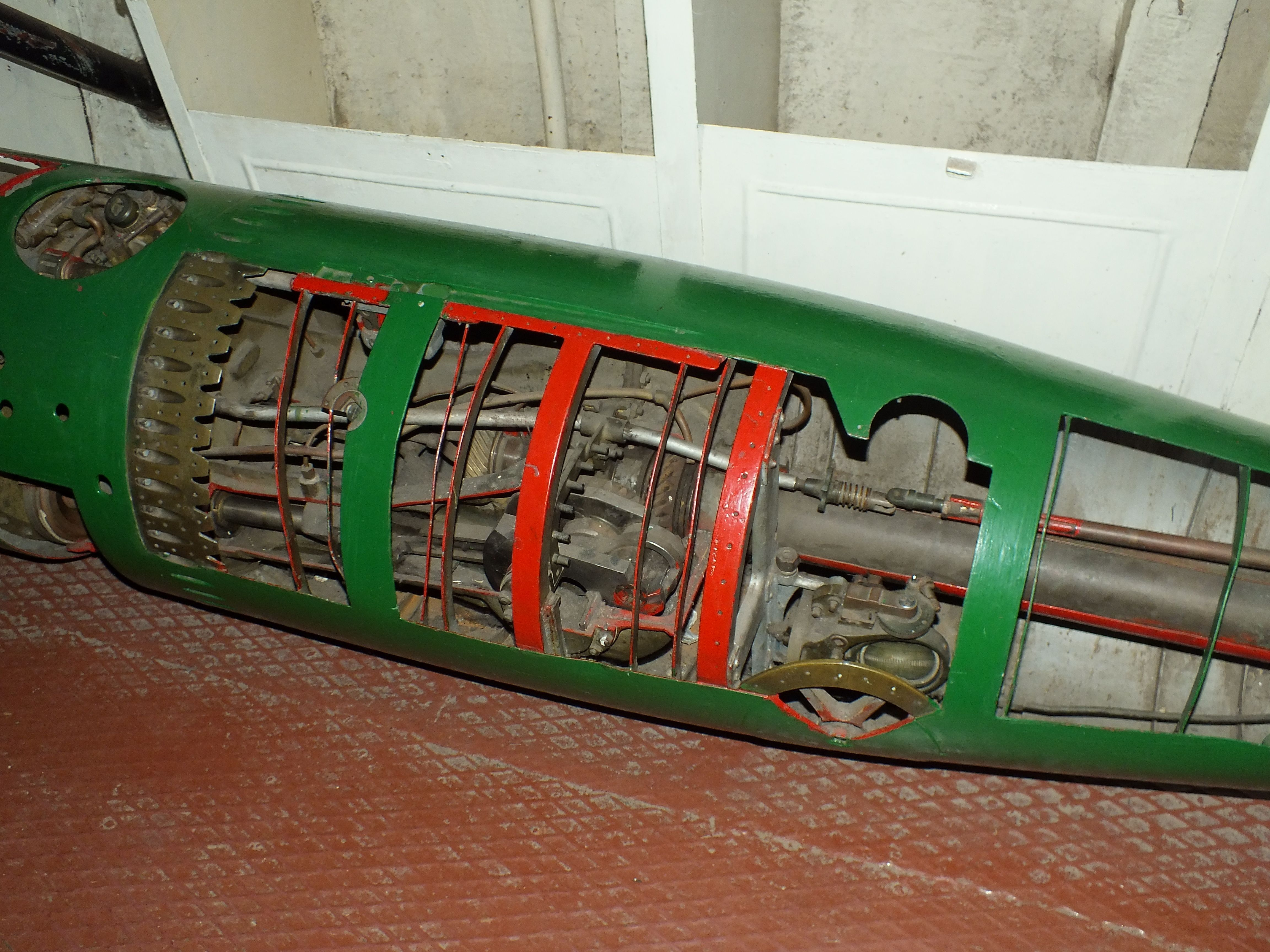 S-56 Submarine Monument (Vladivostok)